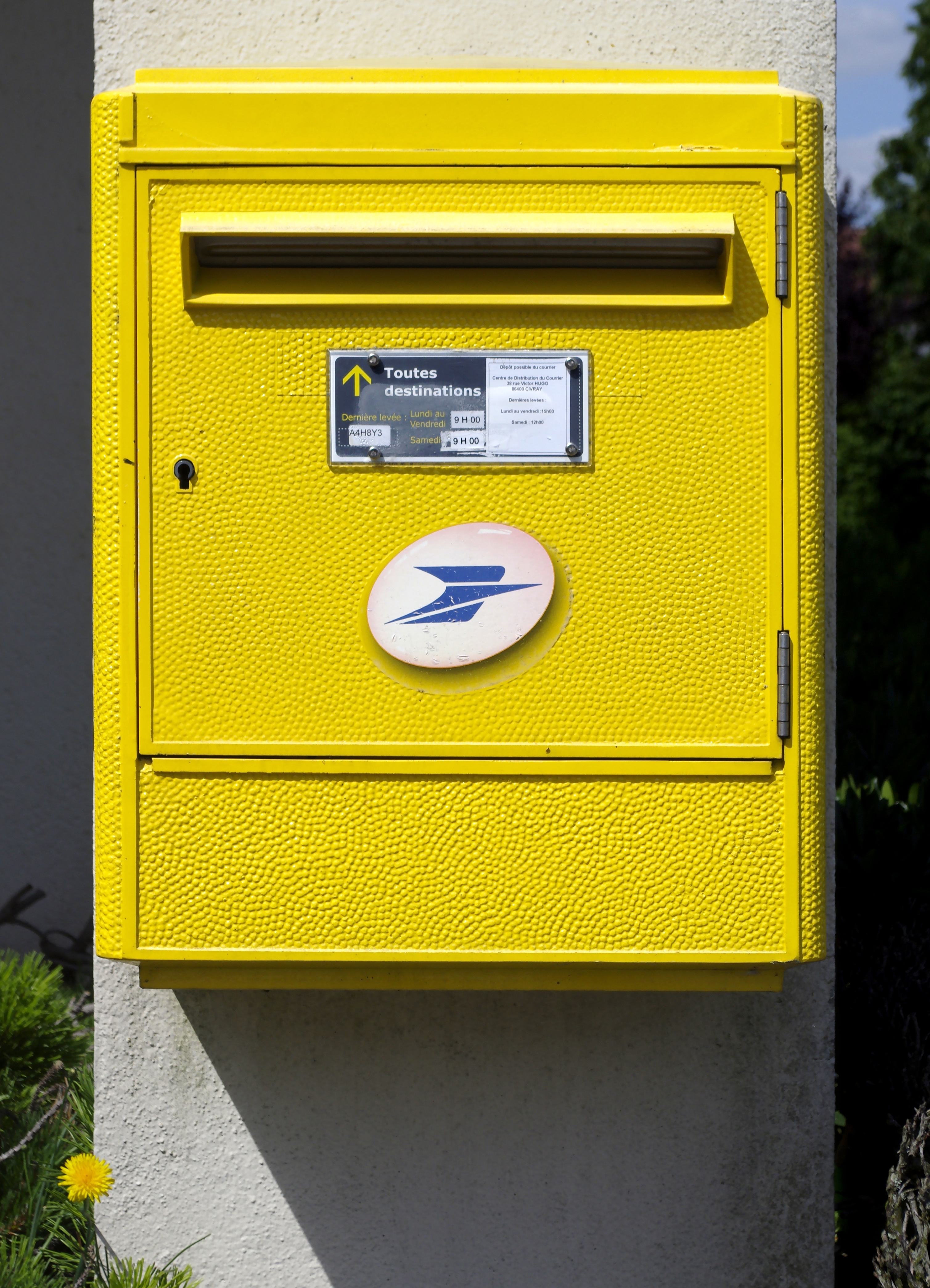 Postbox and a dandelion, Savigné, Vienne, France